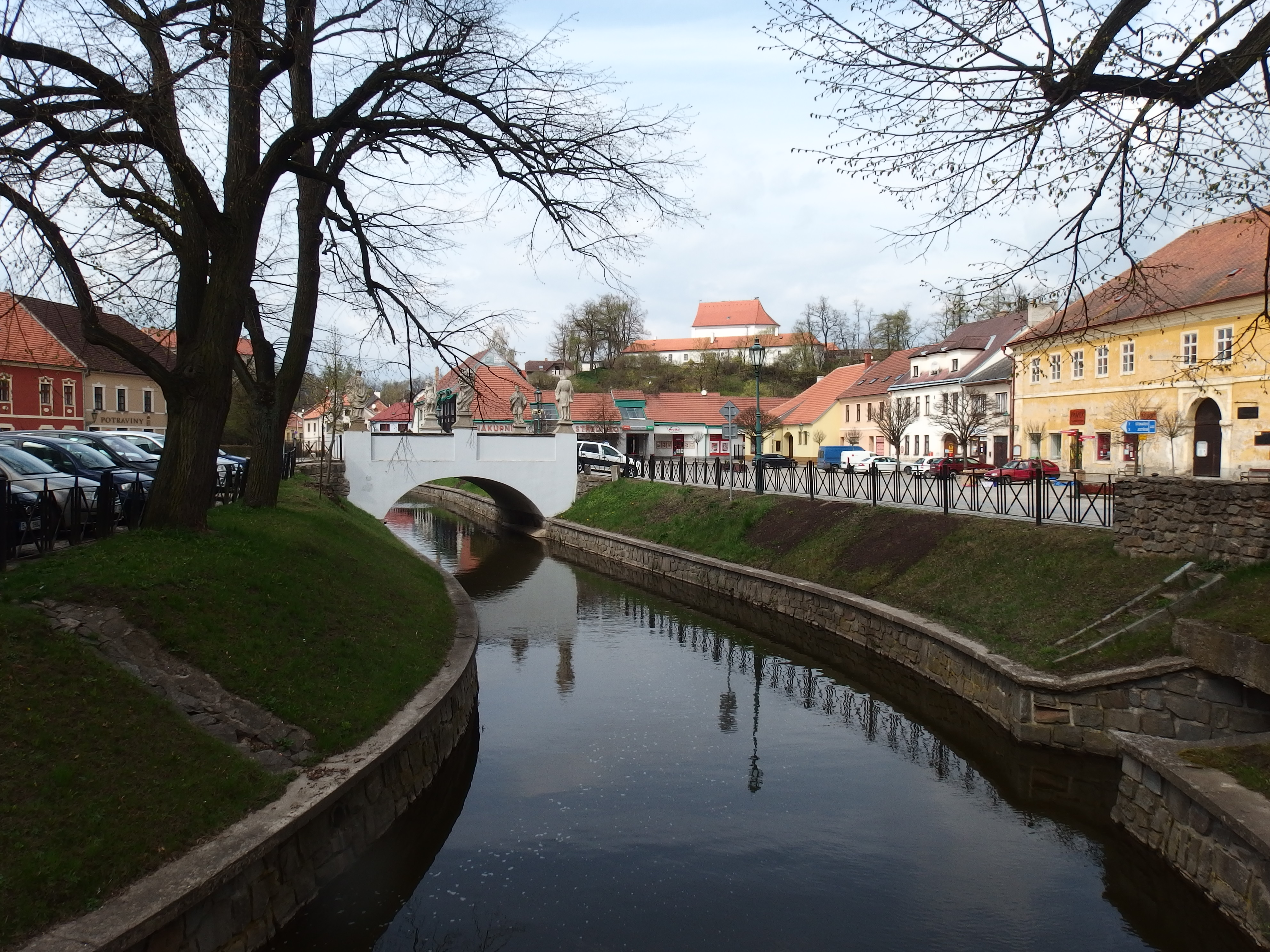 Brtnice, Jihlava District, Czech Republic.